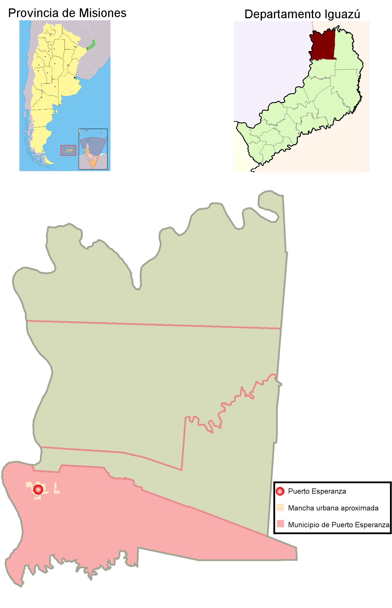 A map showing municipio of Puerto Esperanza in Iguazú departament, Misiones province, Argentina. Also shows Puerto Esperanza town location and its urban sector. Created with GIMP.